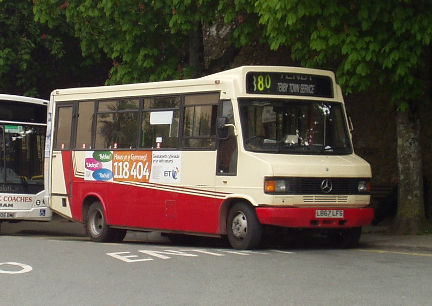 A Plaxton Beaver minibus (on Mercedes-Benz 711D chassis) in Tenby, Pembrokeshire, UK.